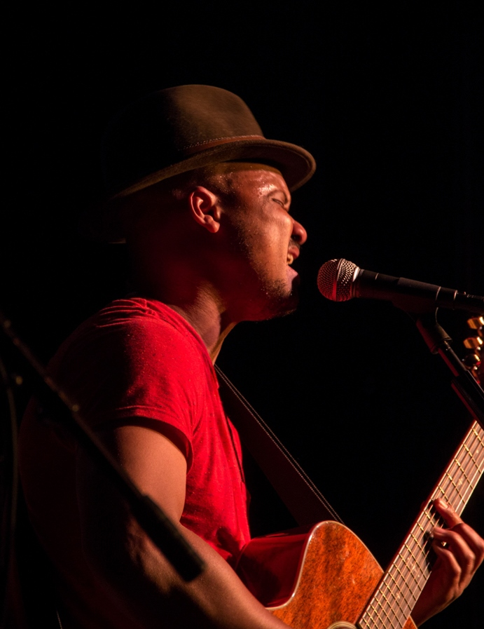 Son Little at the Village Theater, Davenport, IA 11/4/15 for Moeller Mondays Son Little (Aaron Livingston) at the Village Theater, Davenport, IA 11/4/15 for Moeller Mondays